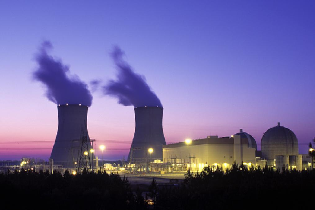 Alvin Ward Vogtle Nuclear Power PLant